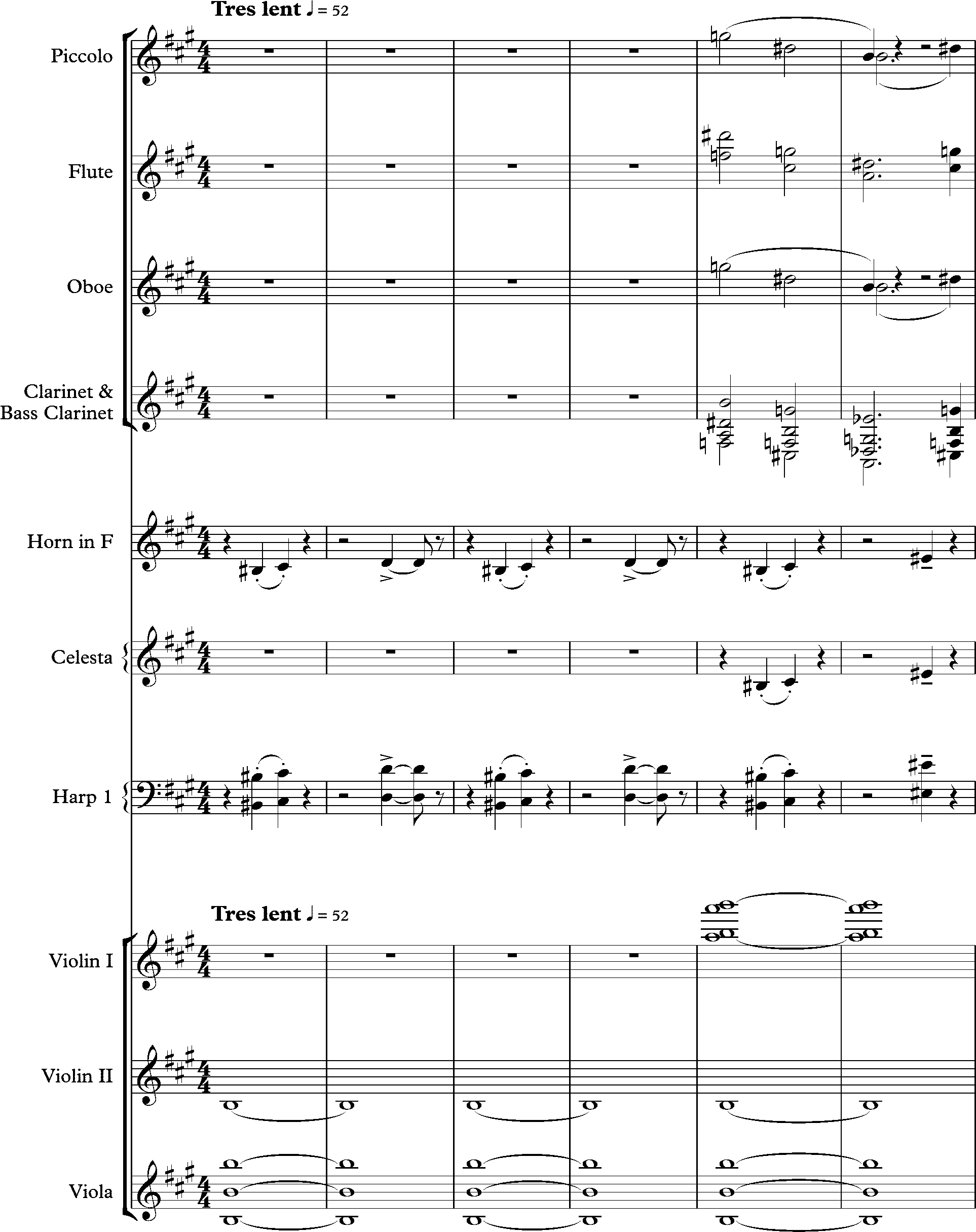 Debussy, Jeux opening bars